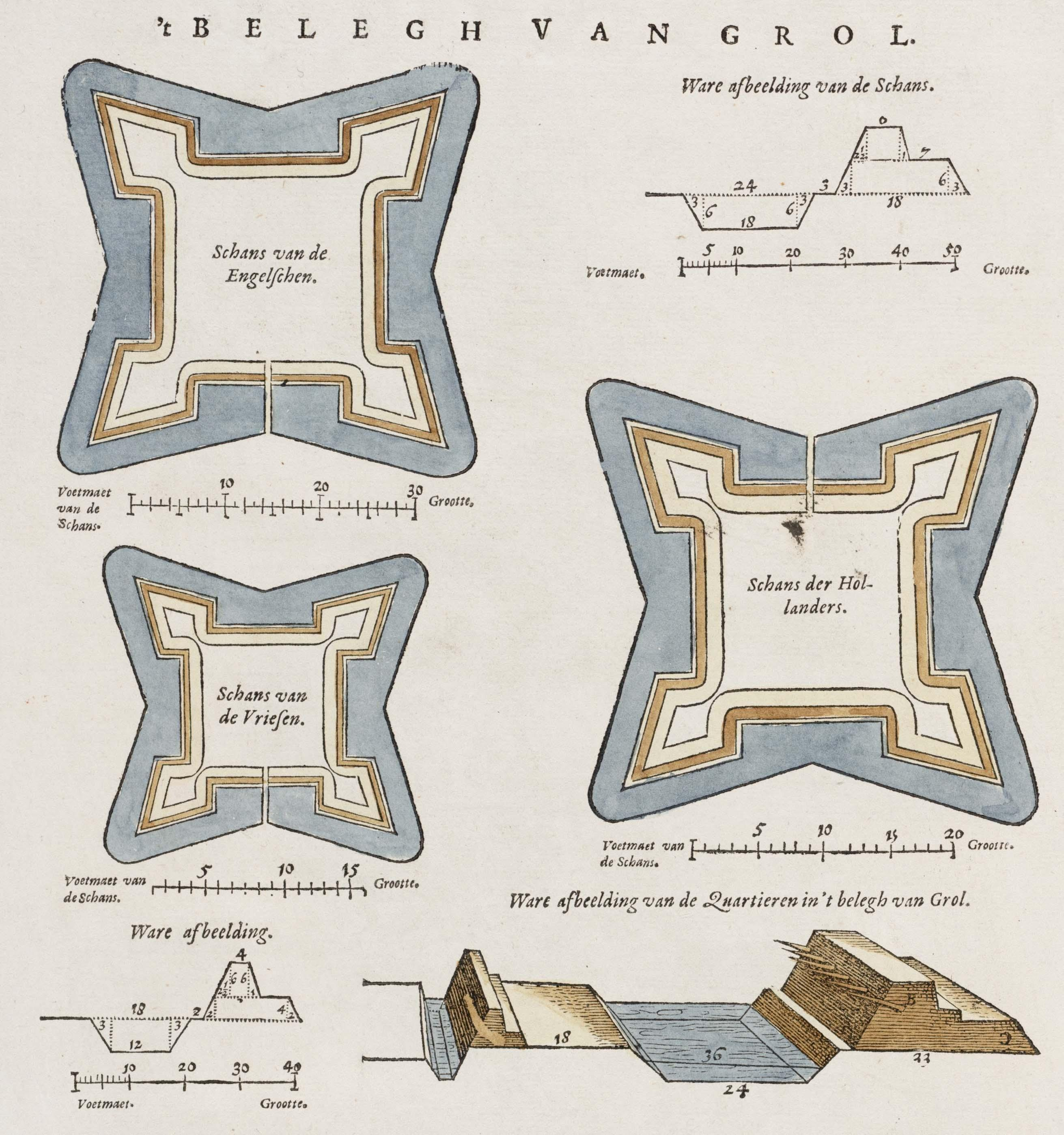 Schematic drawing of the fortifications and quarters made by the English, Frisians and Hollanders during the Siege of Grol (Groenlo) in 1597, led by Maurice of Orange.